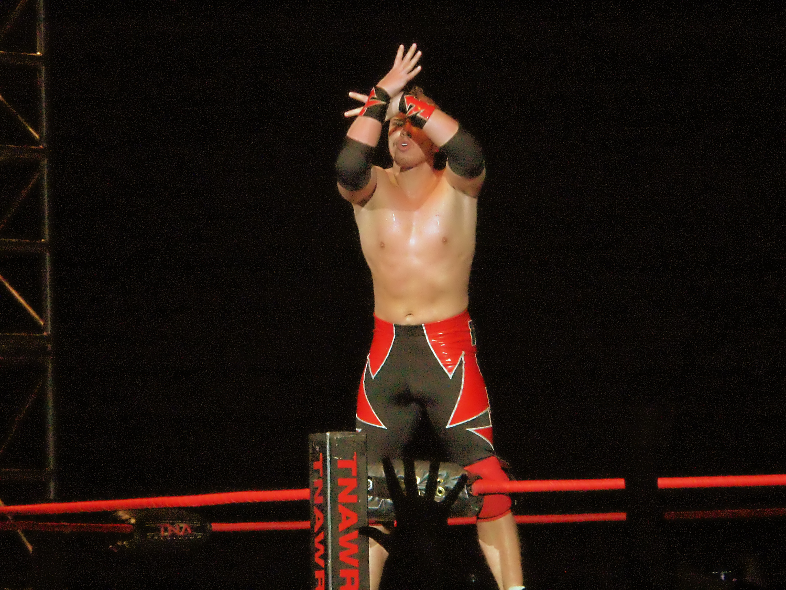 The Amazing Red